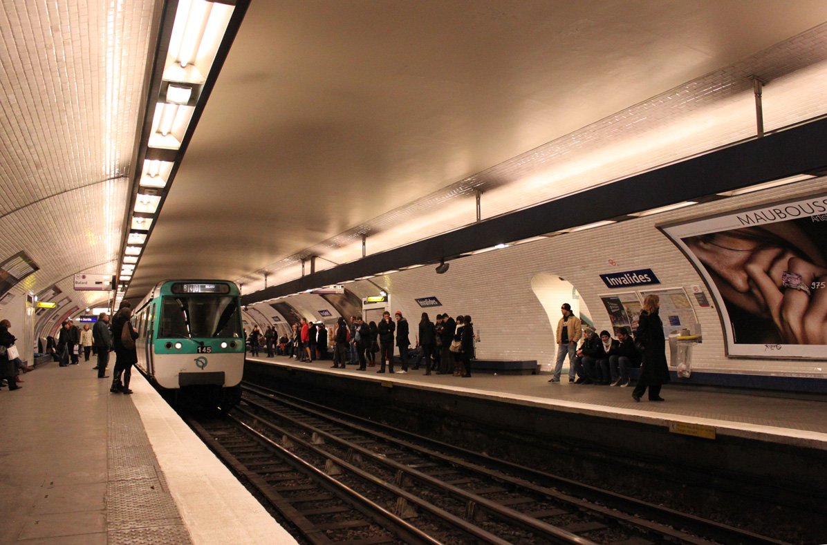 Global view of Invalides Paris metro station on line 8.